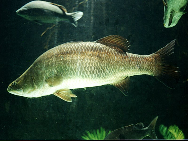 A large barramundi with a Barcoo grunter in the background.